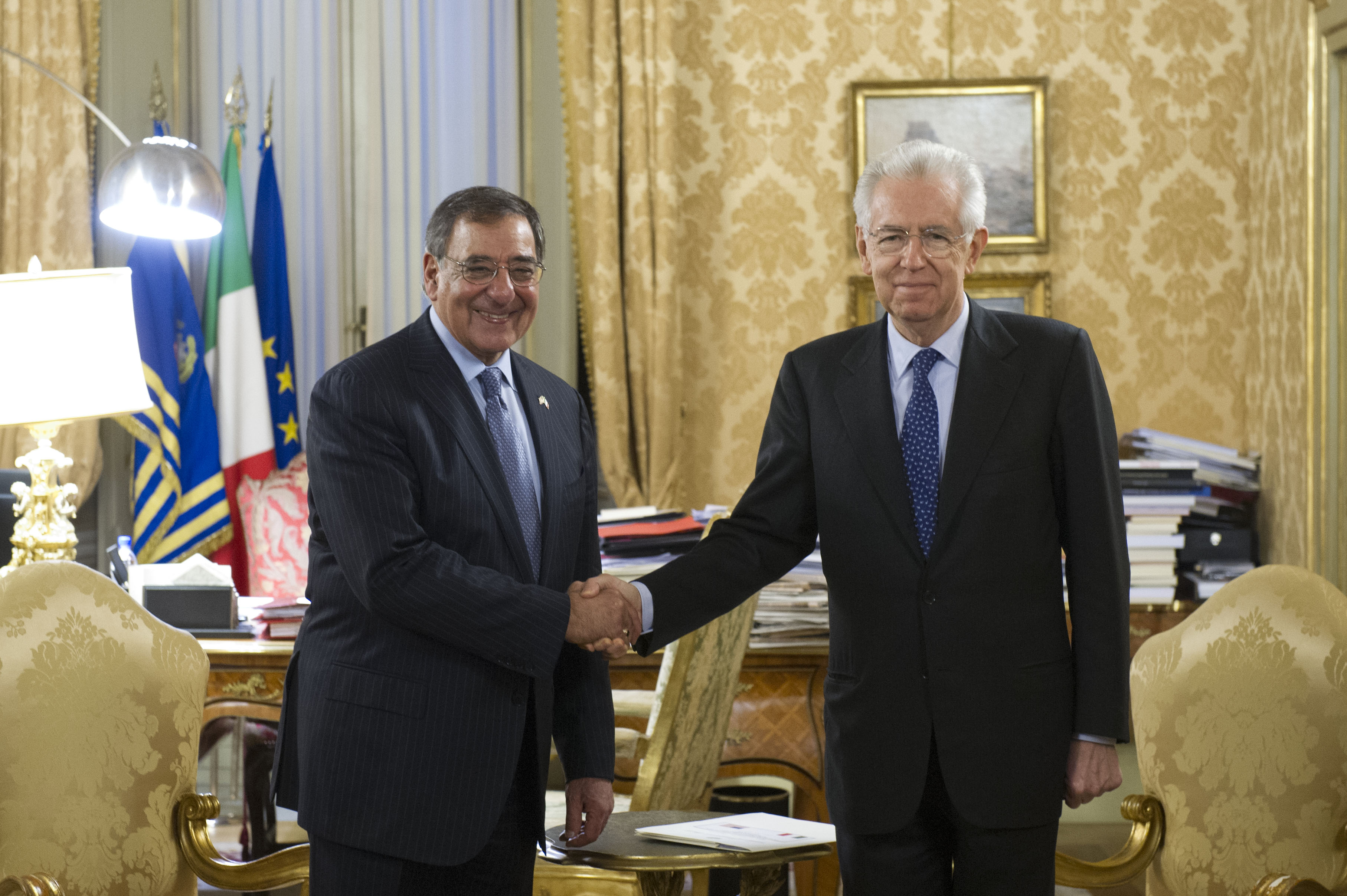 Secretary of Defense Leon E. Panetta shakes hands with Italian Prime Minister, Mario Monti, in Rome, Italy, Jan. 16, 2013. Panetta is on a six day trip to Europe to visit with foreign counterparts and troops in the area.